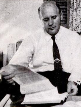 Dan Dale Alexander in 1957.